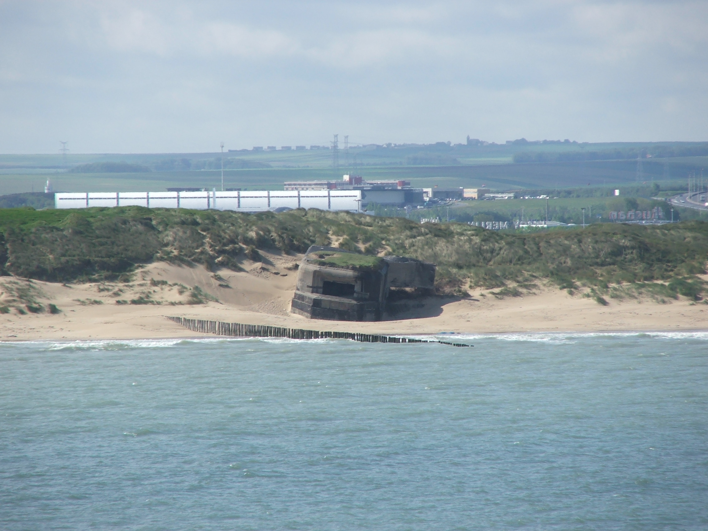 Old bunkers at the sea shore of Calais, France